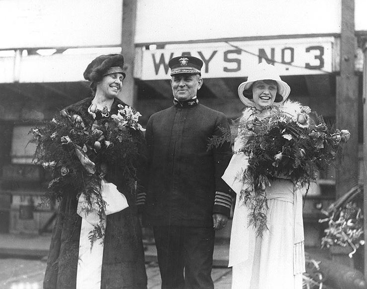 USS Zane (DD-337): Ship's Sponsor: Miss Marjorie Zane (right), at the Zanes christening ceremonies at the Mare Island Navy Yard, California, 12 August 1919. She was the daughter of Major Randolph Talcott Zane, USMC, for whom the ship was named. Also present are her mother, Mrs. R.T. (Barbara) Zane (left), who was the Matron of Honor, and an unidentified Navy Captain.